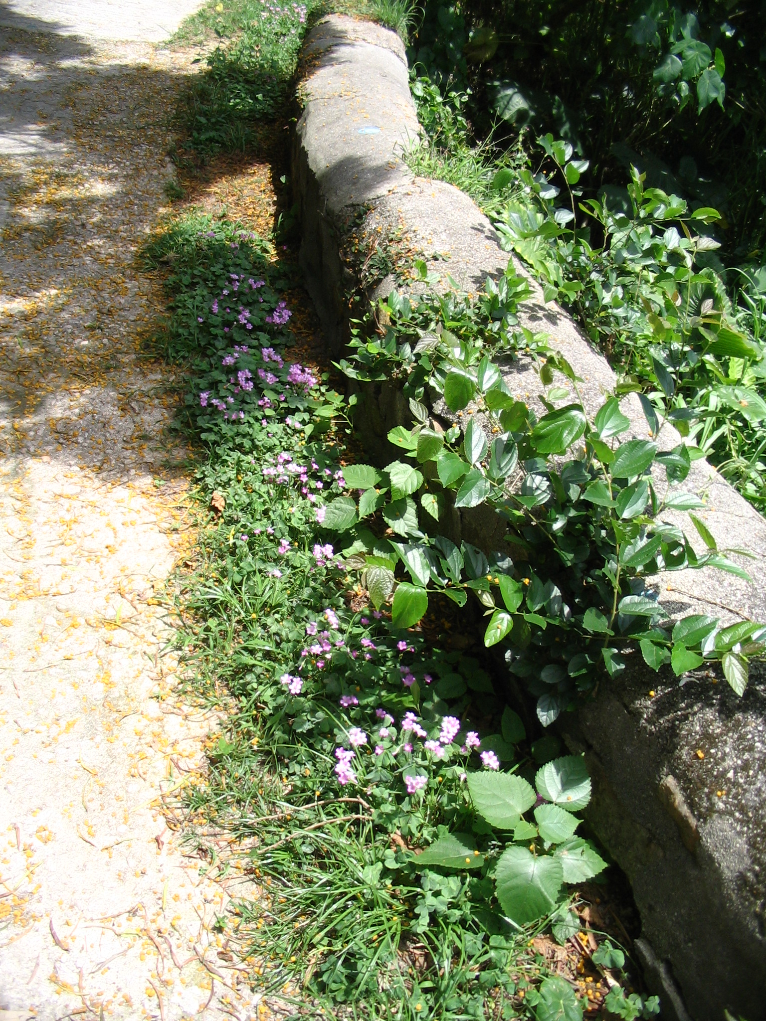 Photo of Ageratum conyzoides